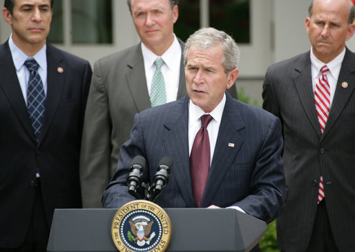 President George W. Bush delivers remarks prior to signing the FISA Amendments Act of 2008 Thursday, July 10, 2008, in the Rose Garden at the White House. White House photo by Chris Greenberg